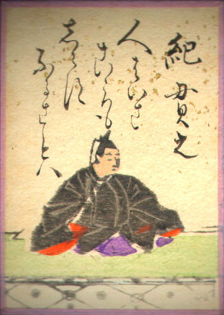 A portrait of Ki no Tsurayuki; illustration from an uta-garuta playing card for Hyakunin Isshu, created in the Edo period.